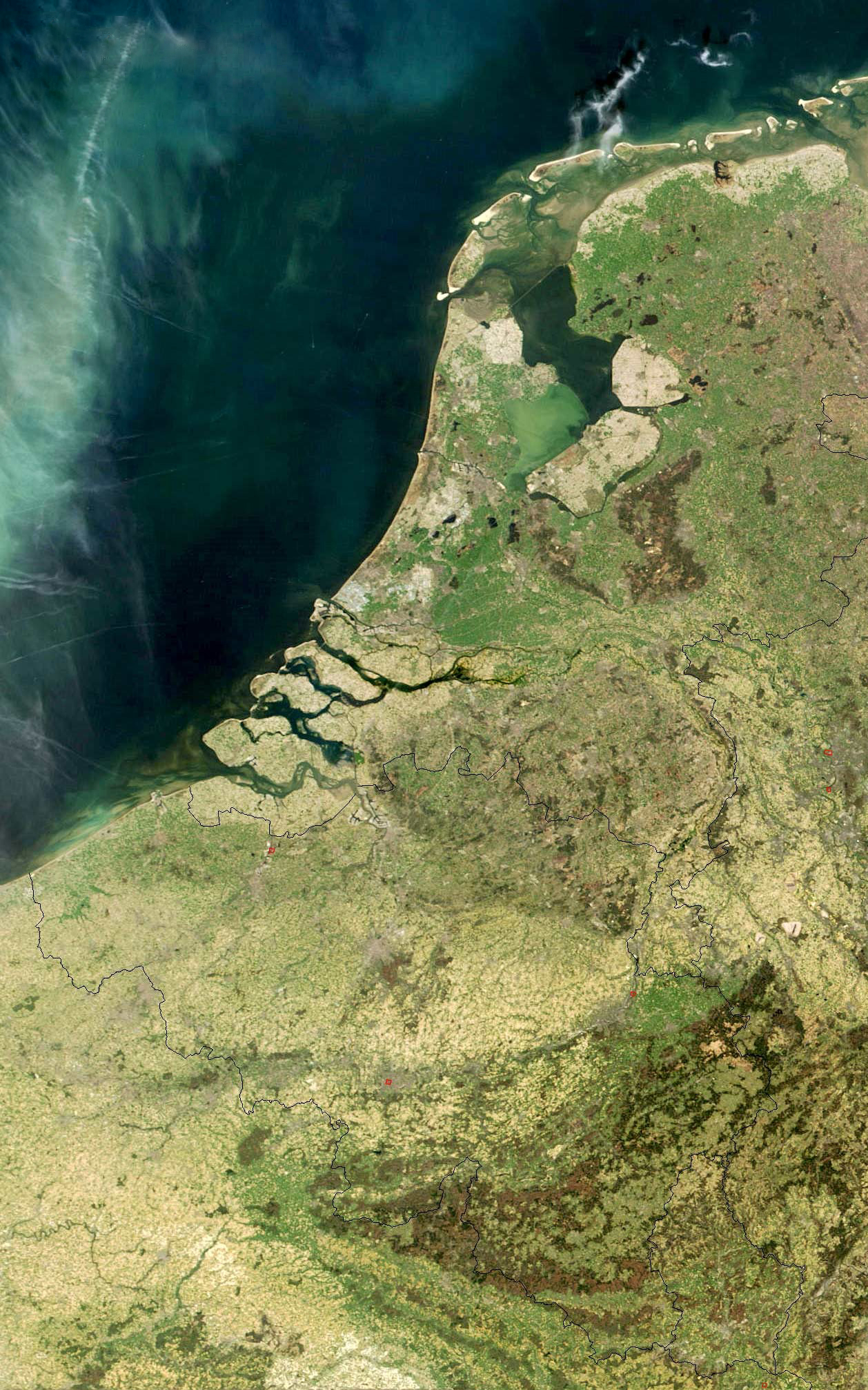 Satellite photo of Belgium, Luxembourg, and the Netherlands from NASA